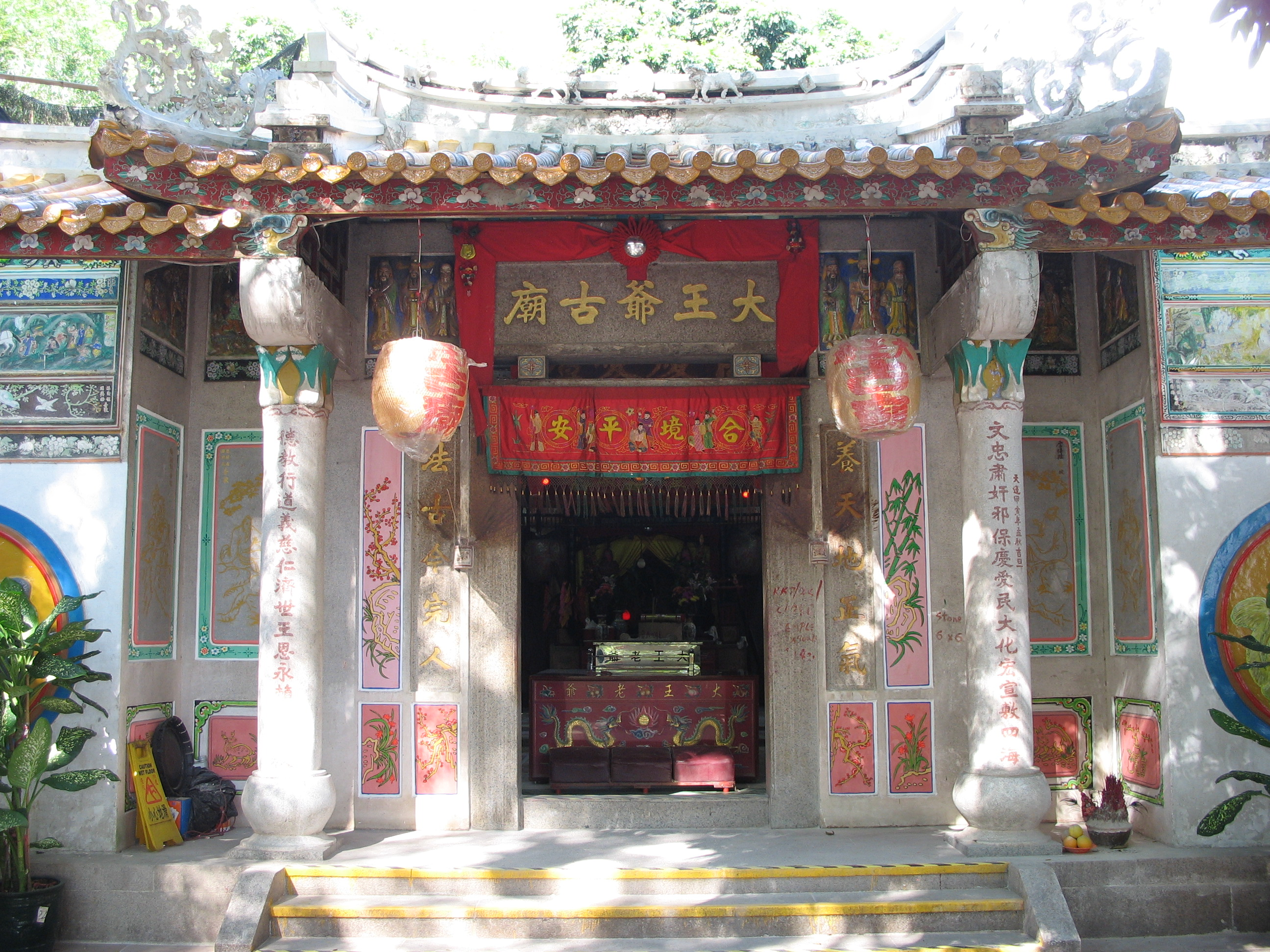 Tai Wong Yeh Temple at Kwun Tong